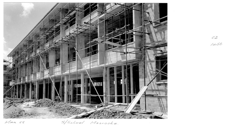 Moorooka State School - Brisbane.